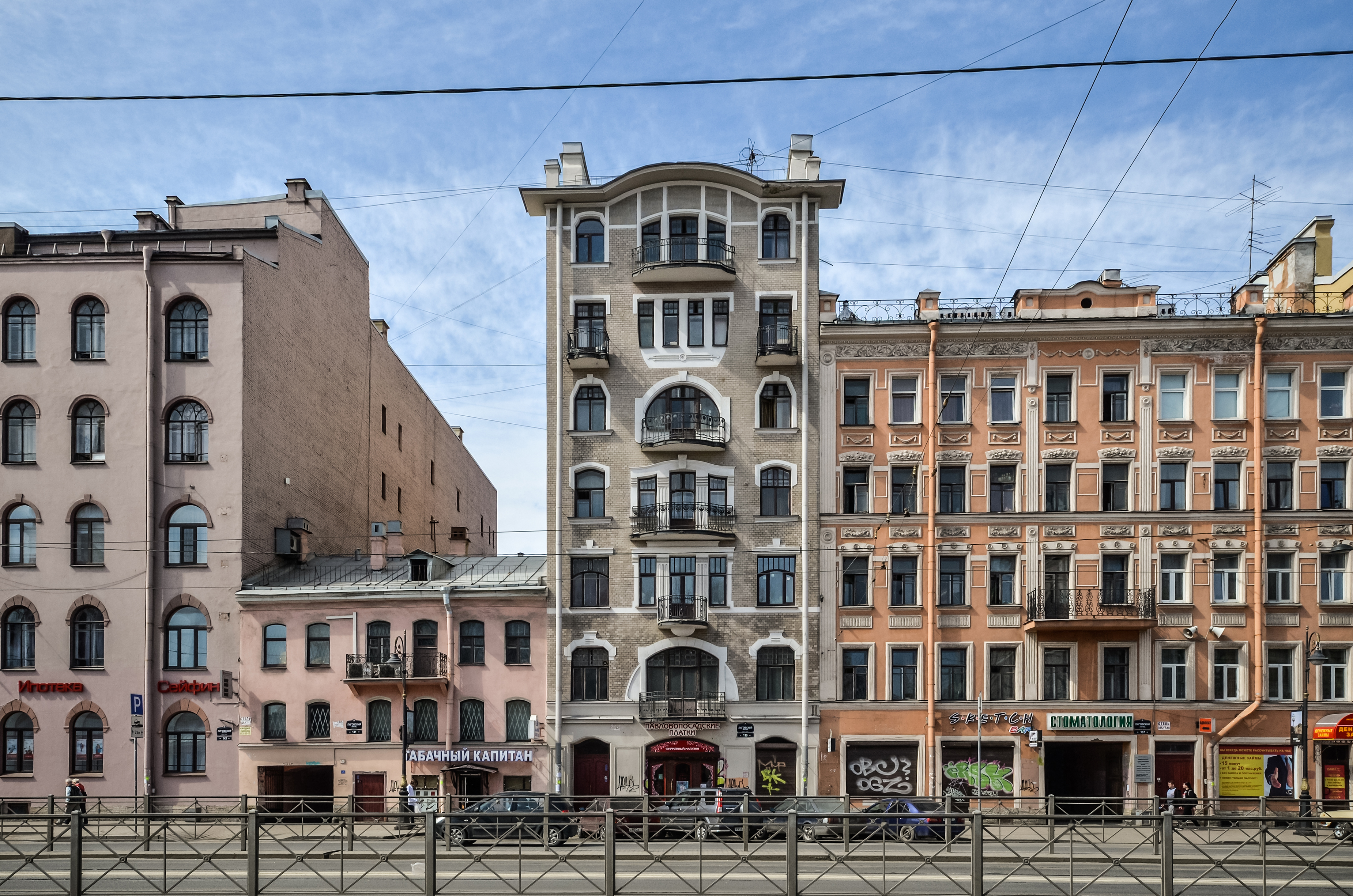 Kuritsin's Apartment House at Ligovsky Avenue in Saint Petersburg